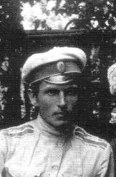 Buzun, Pyotr Grigoryevich